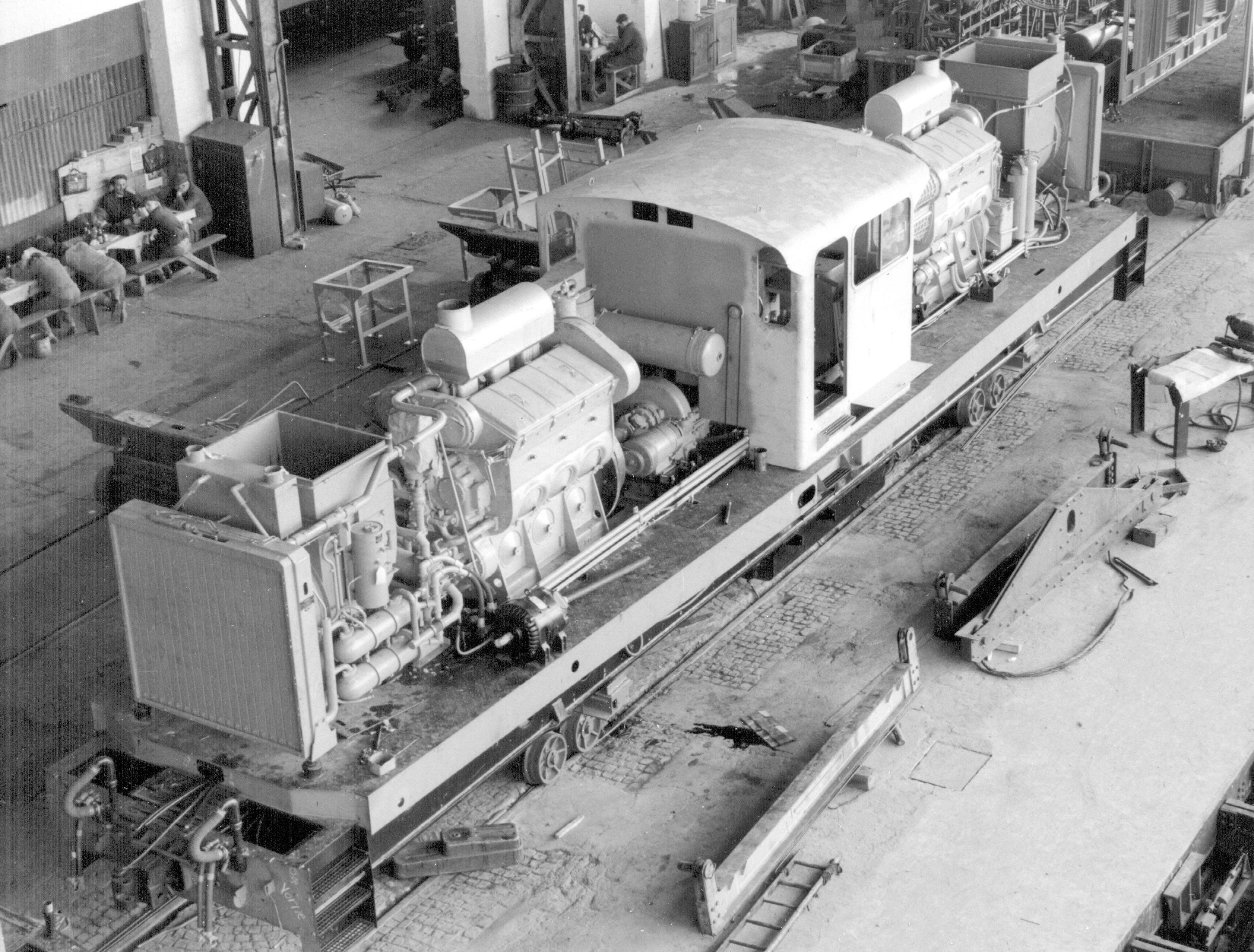 South African Class 61-000 61-006 Builder's Number: Henschel 29750 Type: Diesel-hydraulic shunter Location: Henschel factory, Kassel, Germany Renumbering: Renumbered from D750 to 61-006 (SAR) Reclassification: To Rhodesian Railways Class DH1